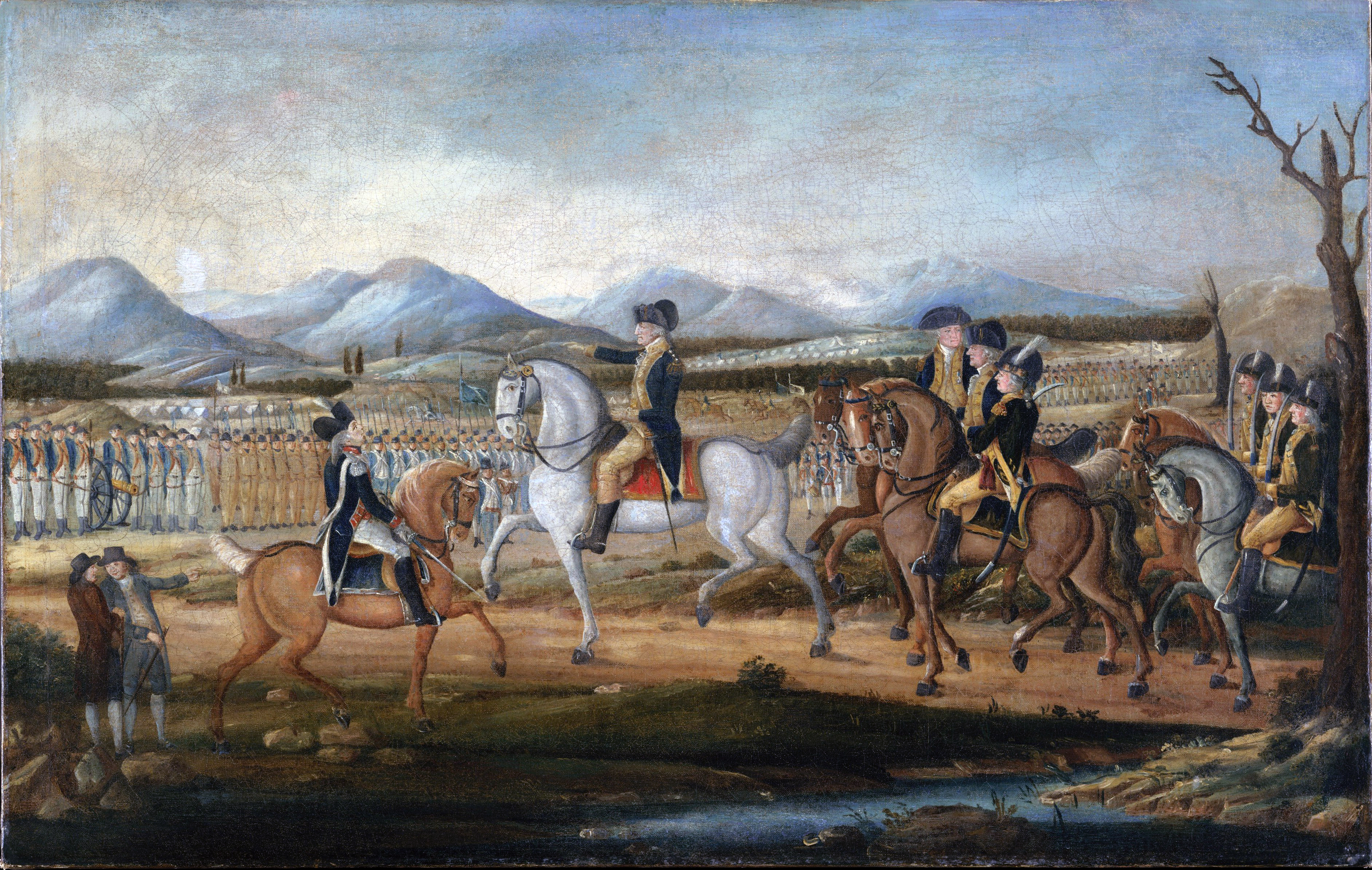 The Whiskey Rebellion